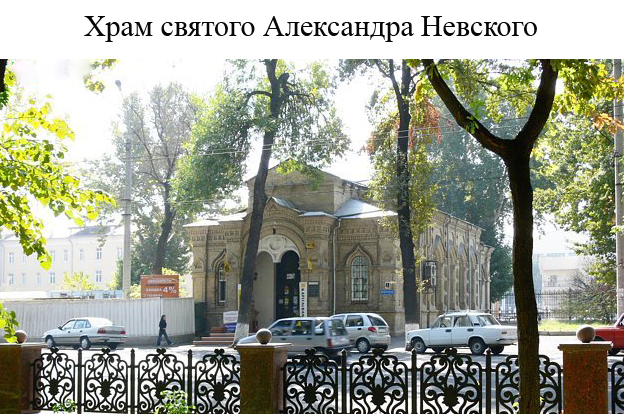 Church of St. Alexander Nevsky Cathedral in Tashkent